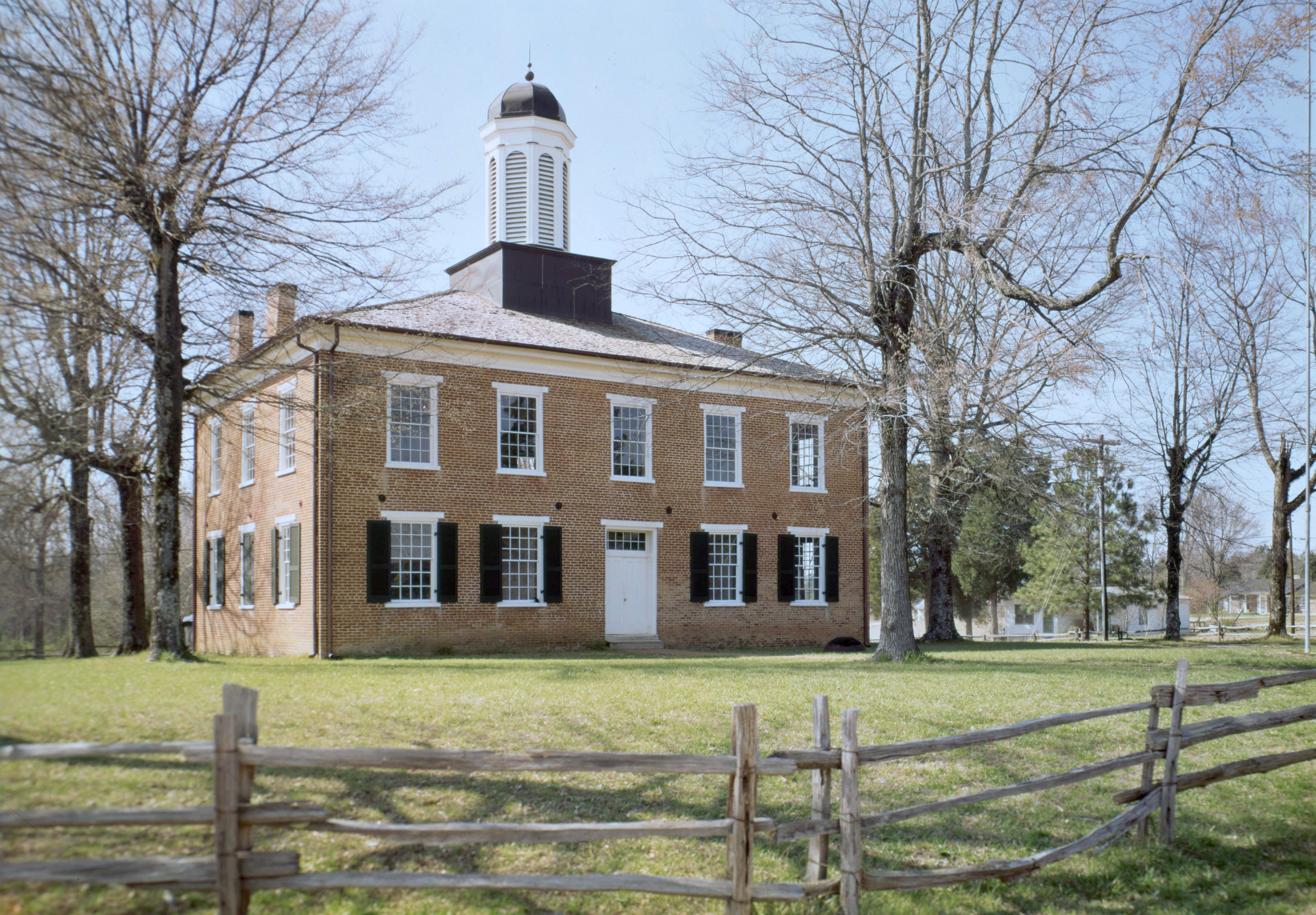 Front of the Jacinto Courthouse, located off Mississippi Highway 356 east of Rienzi in Alcorn County, Mississippi, United States. Built in 1854, it is listed on the National Register of Historic Places.